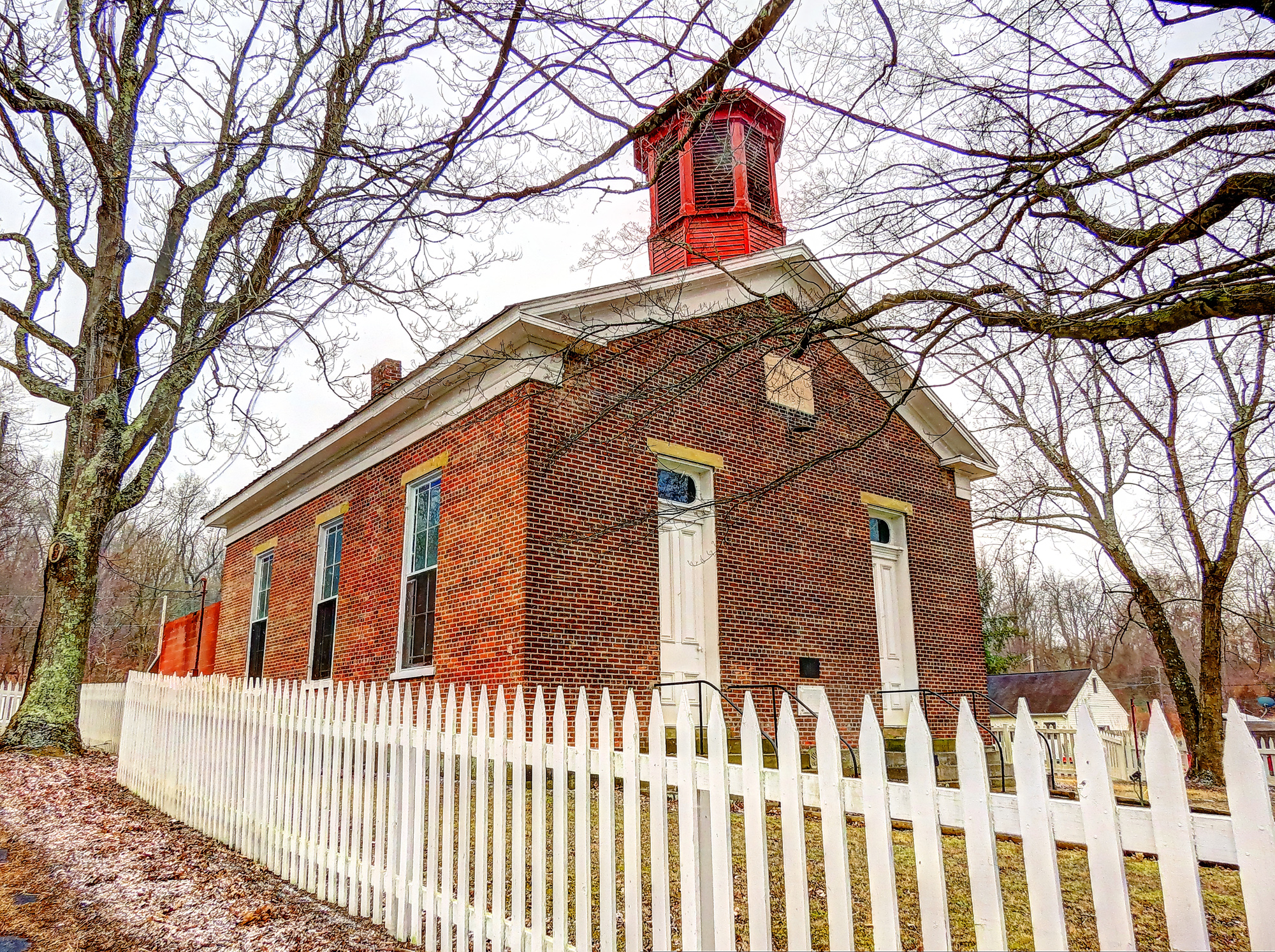 Oak Hill Welsh Congregational Church (added 1978 - - #78002090) 412 E. Main St. , Oak Hill Historic Significance: Event, Architecture/Engineering Architect, builder, or engineer: Parry,Isaac, Herbert,Thomas Architectural Style: Greek Revival Area of Significance: European, Architecture, Religion Period of Significance: 1850-1874 Owner: Private Historic Function: Religion Historic Sub-function: Religious Structure Current Function: Recreation And Culture Current Sub-function: Museum